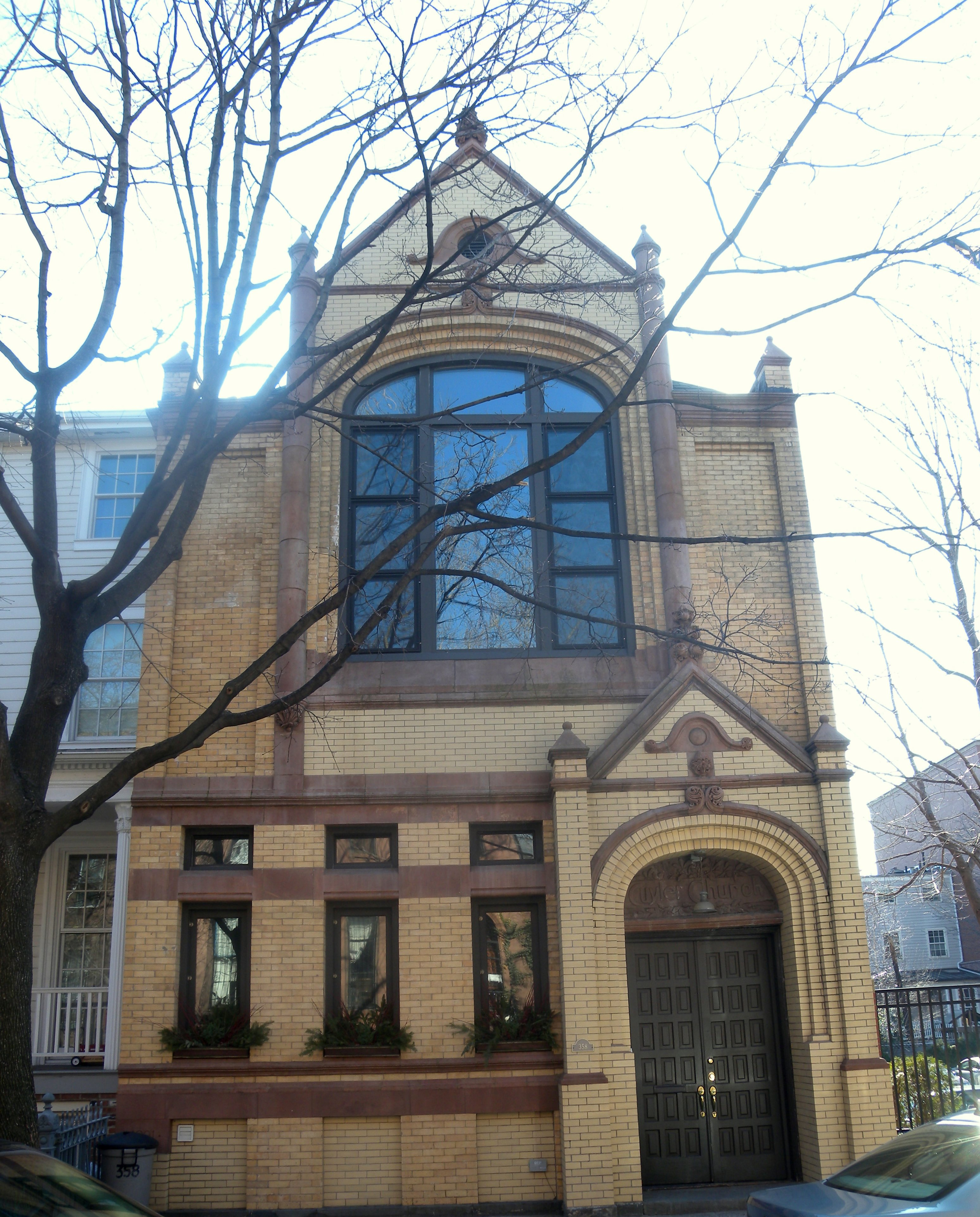 Looking south across Pacific Street at Cuyler Memorial Church on a sunny afternoon.